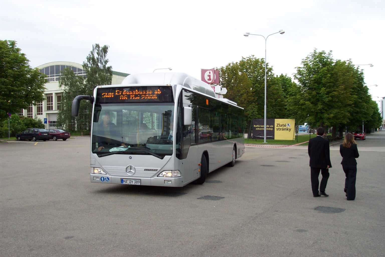 Bus type Mercedes Citaro at Autotec trade fair in Brno.